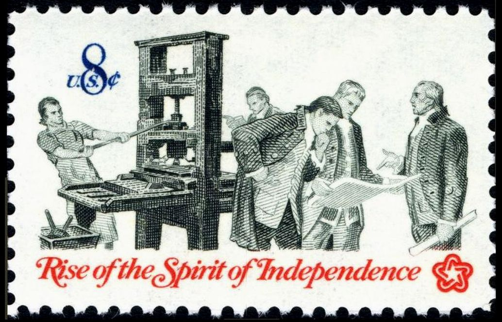 Pamphleteers were commemorated in Rising of the Spirit of Independence Bicentennial Issue commemorating communications in colonial times. Printers and patriots were honored on an 8-cent stamp issued February 16, 1973